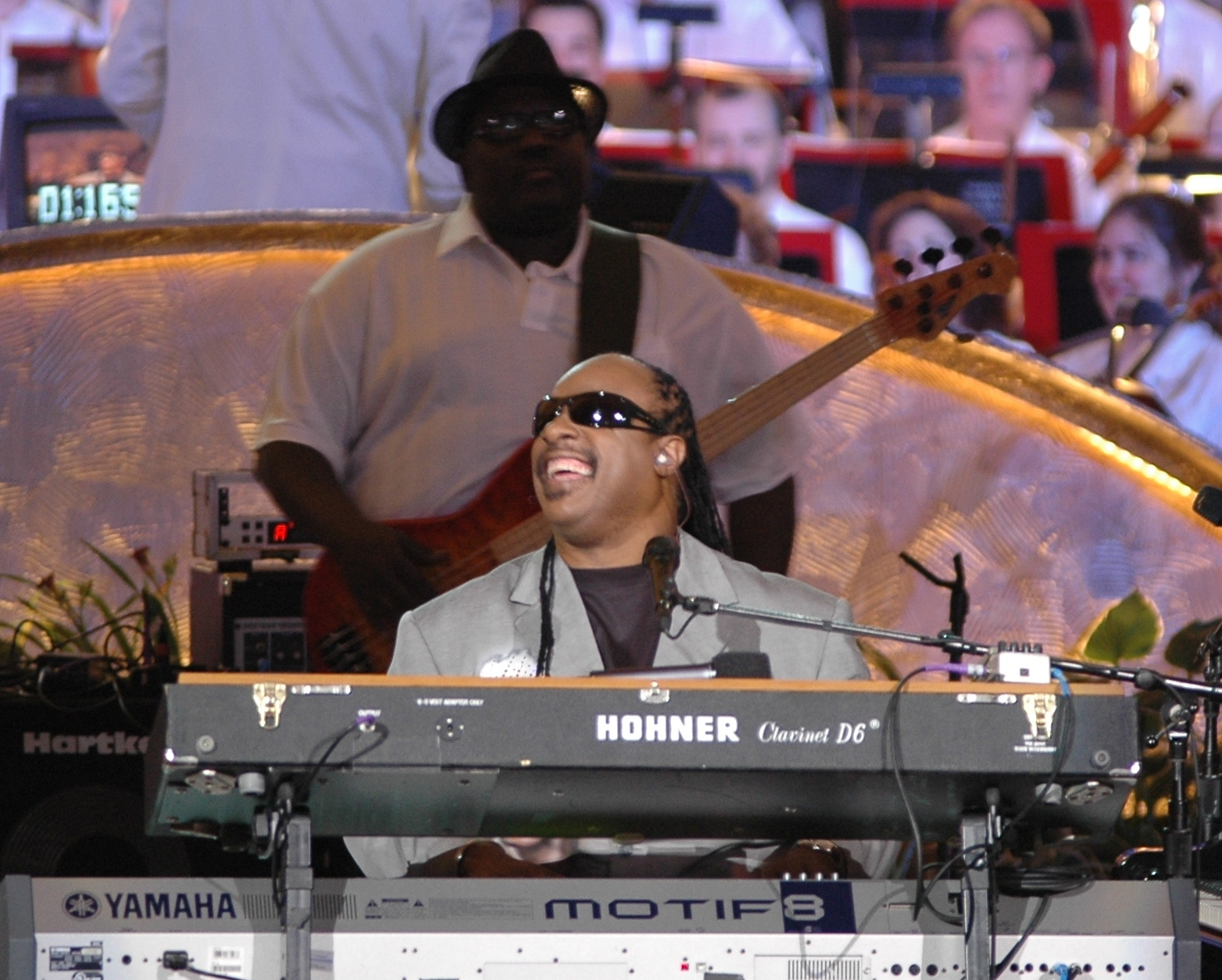 Stevie Wonder (front) with bassist Nathan Watts (back).